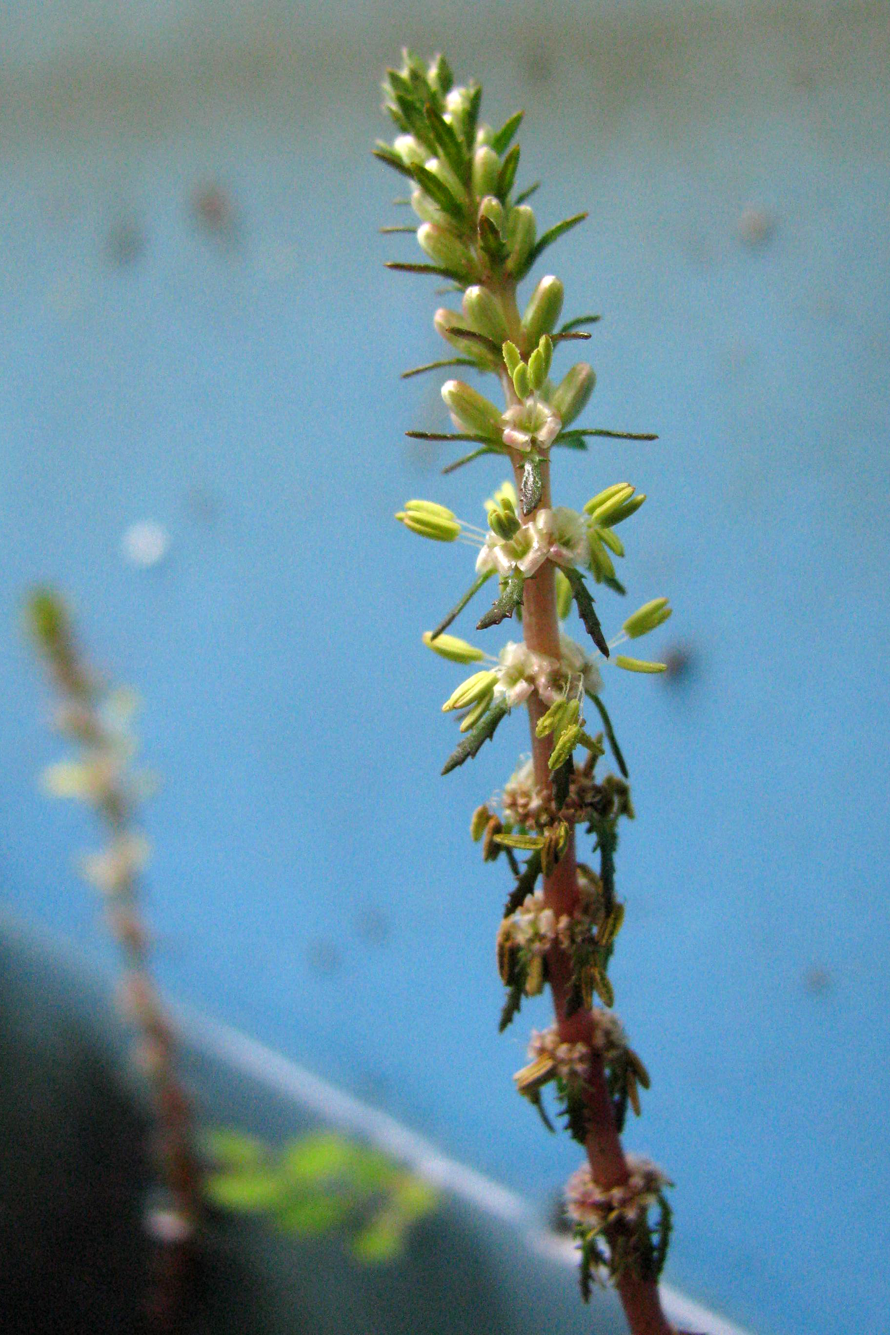 twoleaf watermilfoil - Myriophyllum heterophyllum Michx.